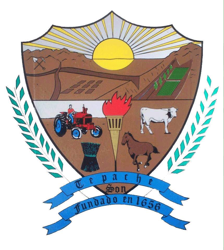 Escudo de armas del municipio de Tepache